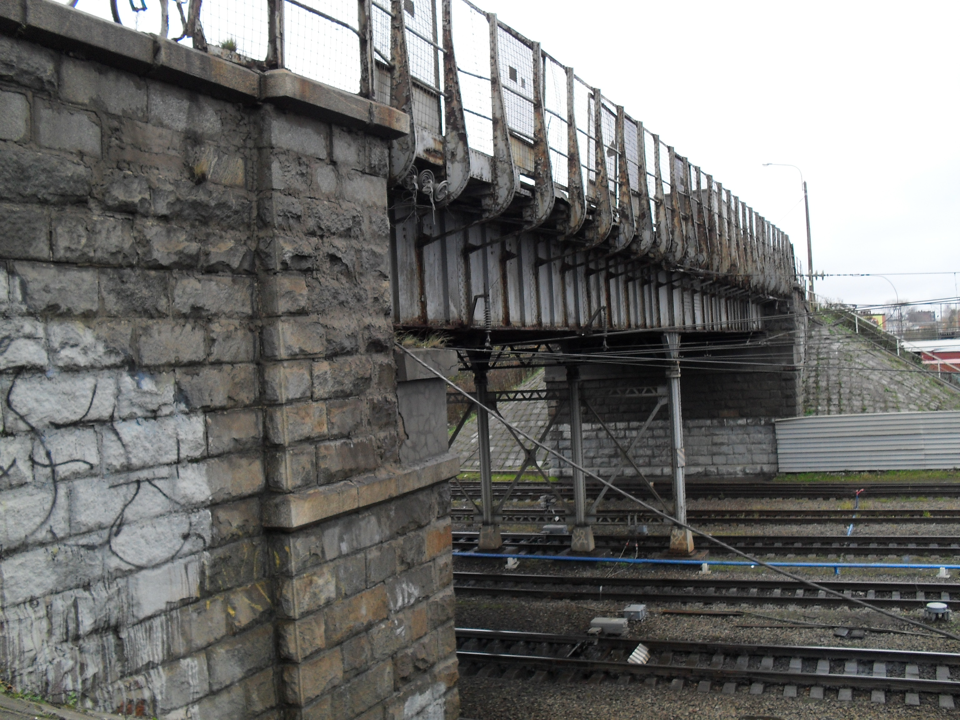 Navalochny puteprovod, built in 1909